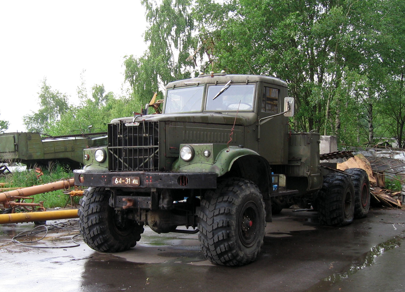 Kraz in monino museum Russia